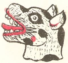 The Aztec day sign itzcuintli (dog).